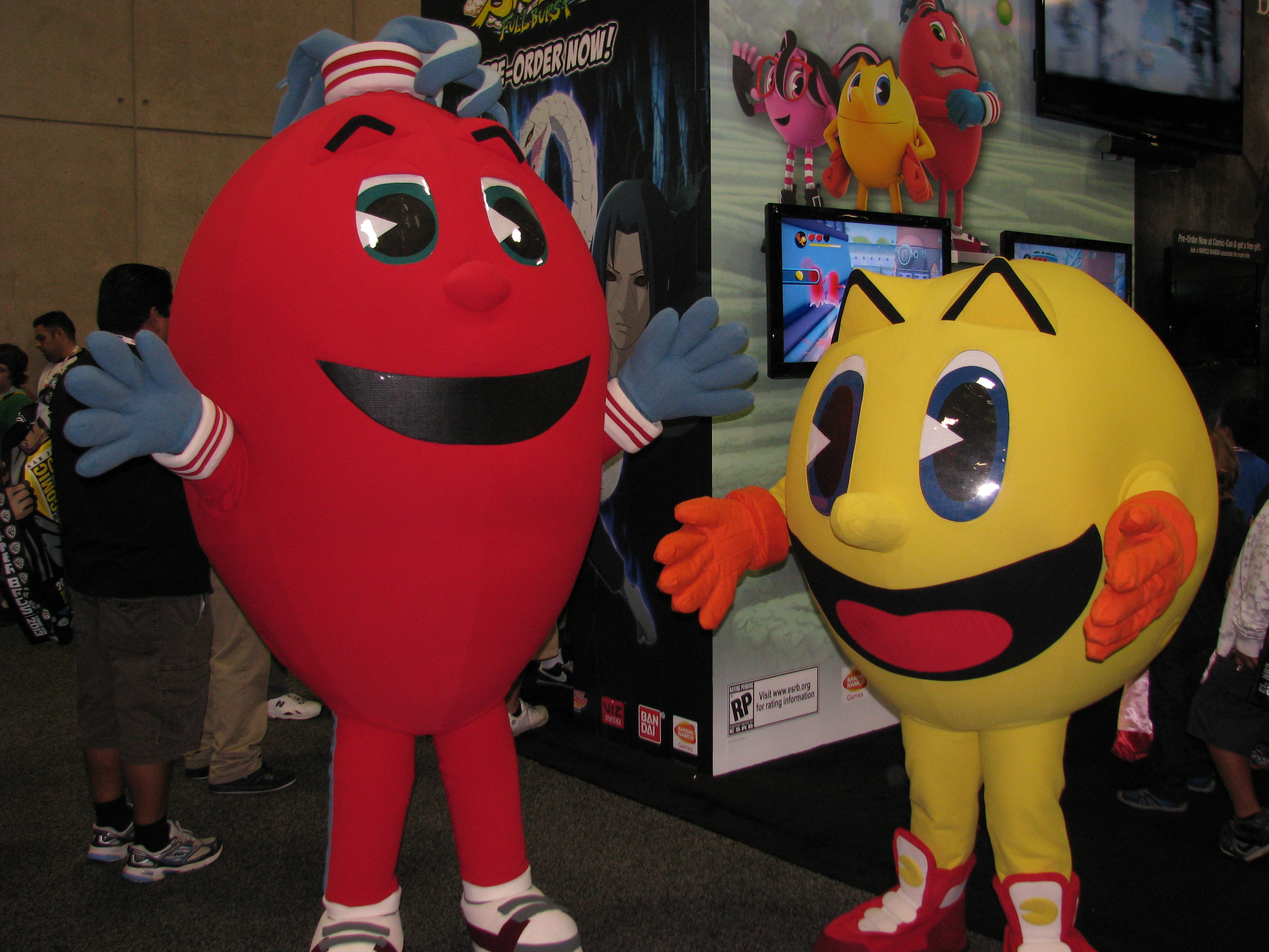 It's Pac-Man!